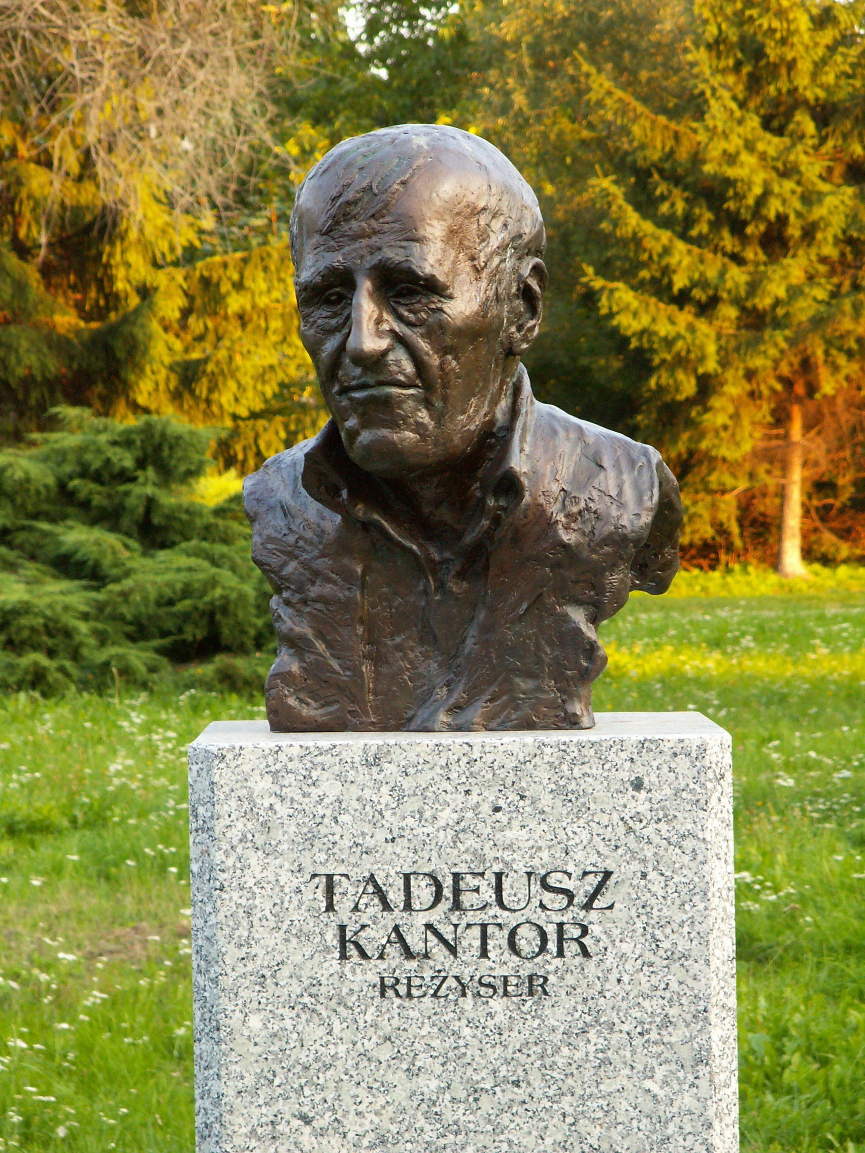 Bust of Tadeusz Kantor in Celebrity Alley in Kielce (Poland)